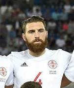 This is Georgian's foto